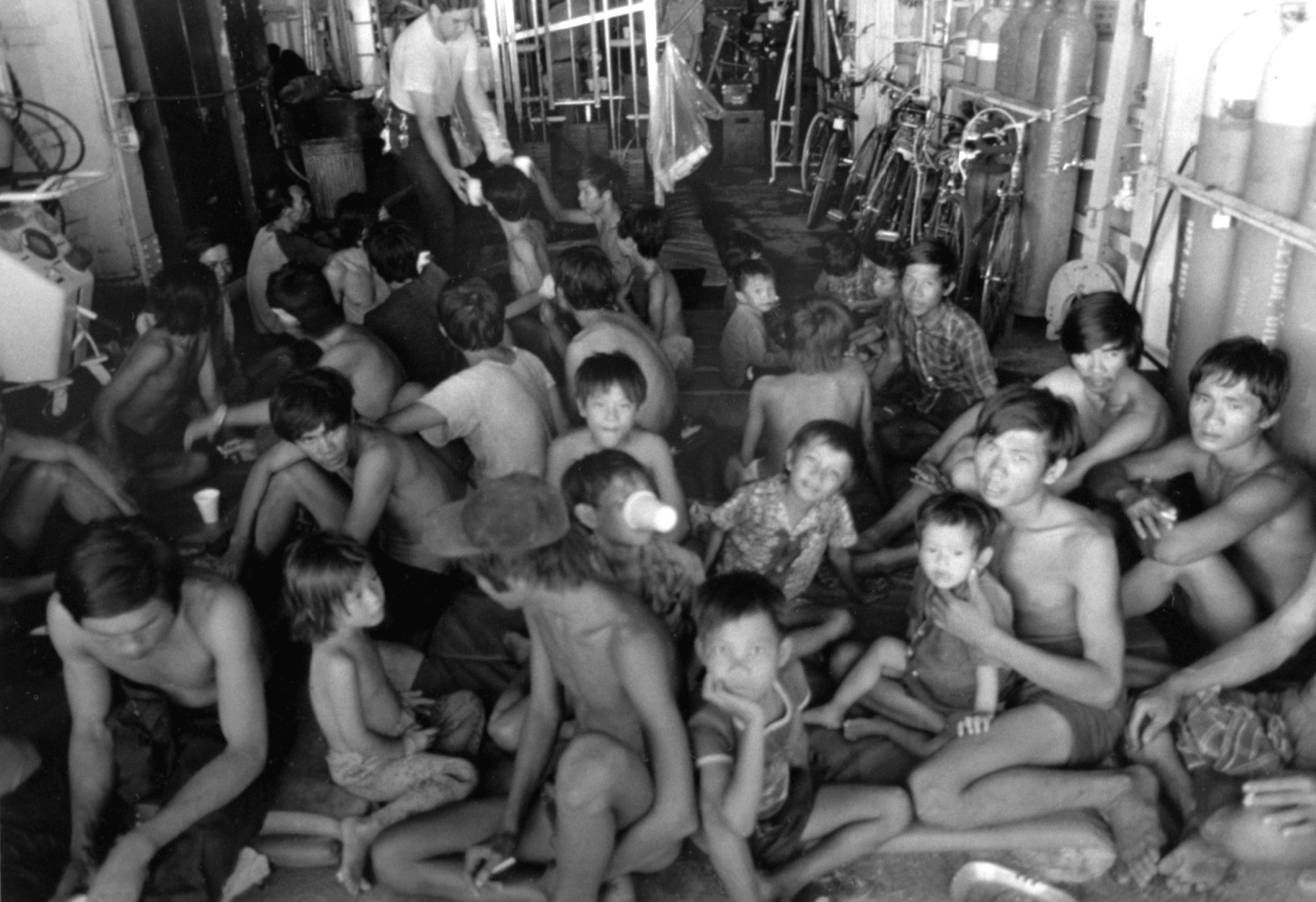 Vietnamese refugees rest as crewmen aboard the guided missile cruiser USS FOX (CG-33) give them something to drink.